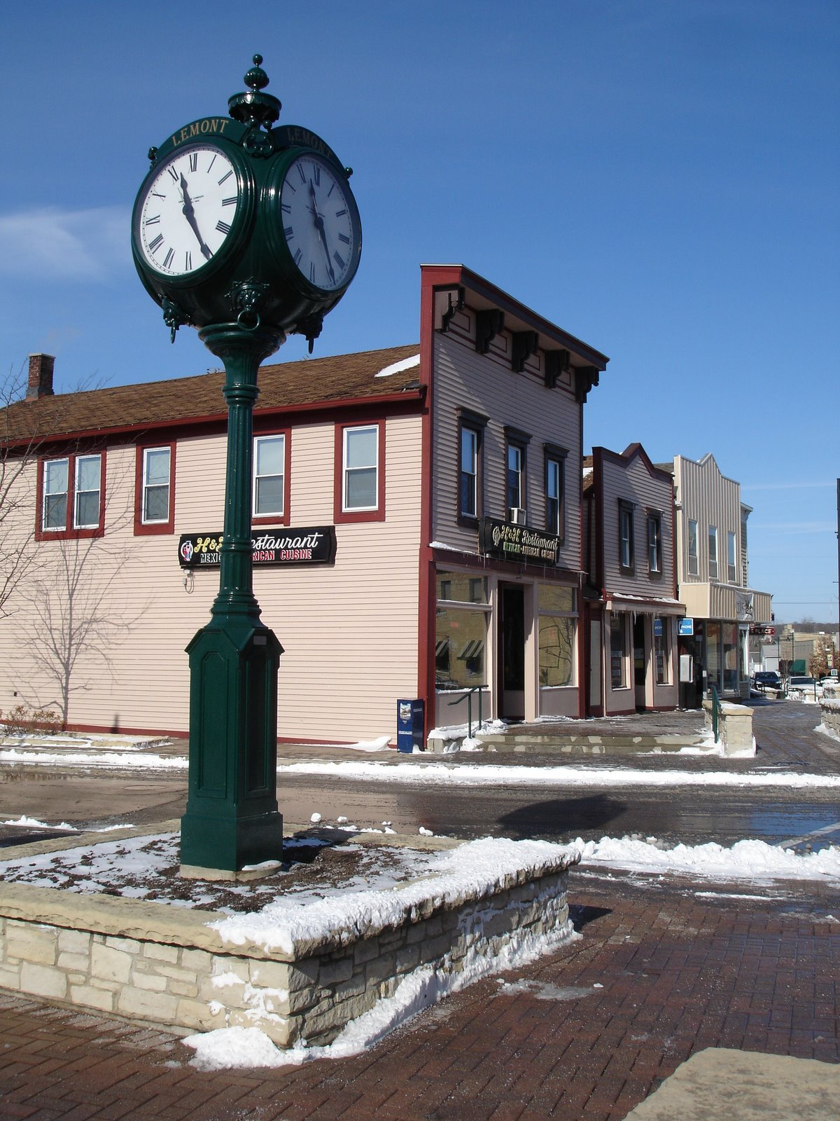 The clock in the center of downtown Lemont, IL.